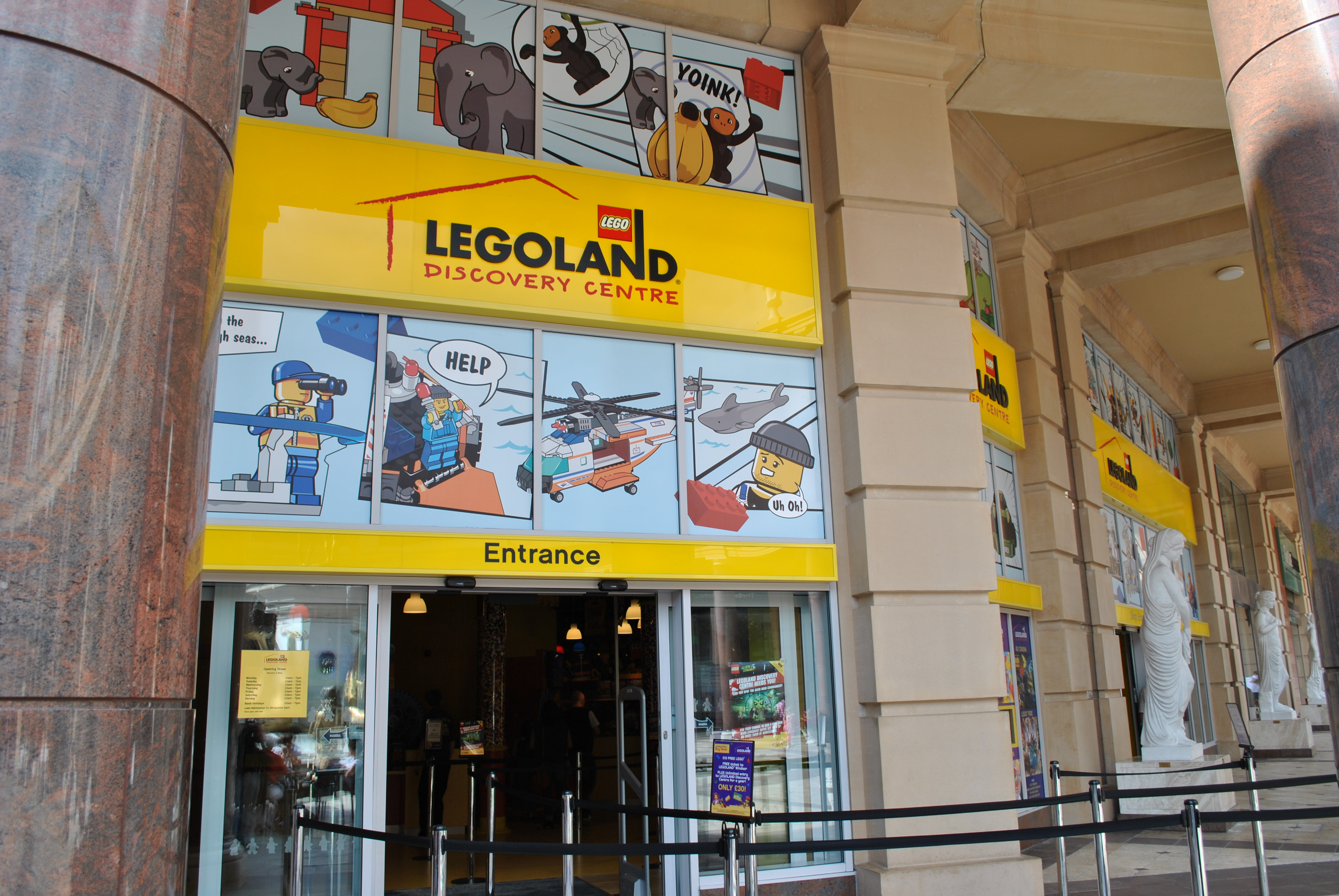 Outside Legoland Discovery Centre Manchester, Trafford Park, Manchester, England